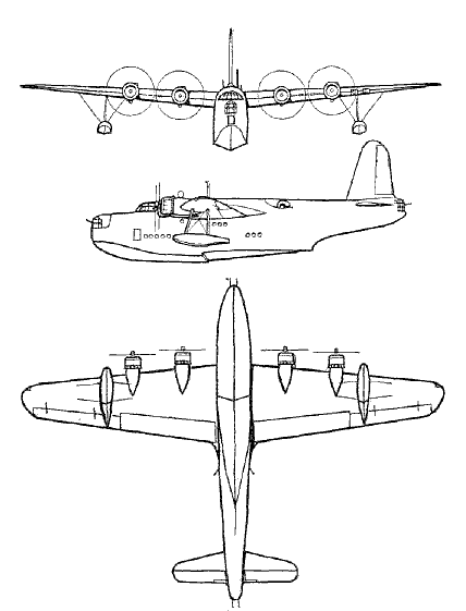 3-view drawings of the Short Sunderland flying boat.